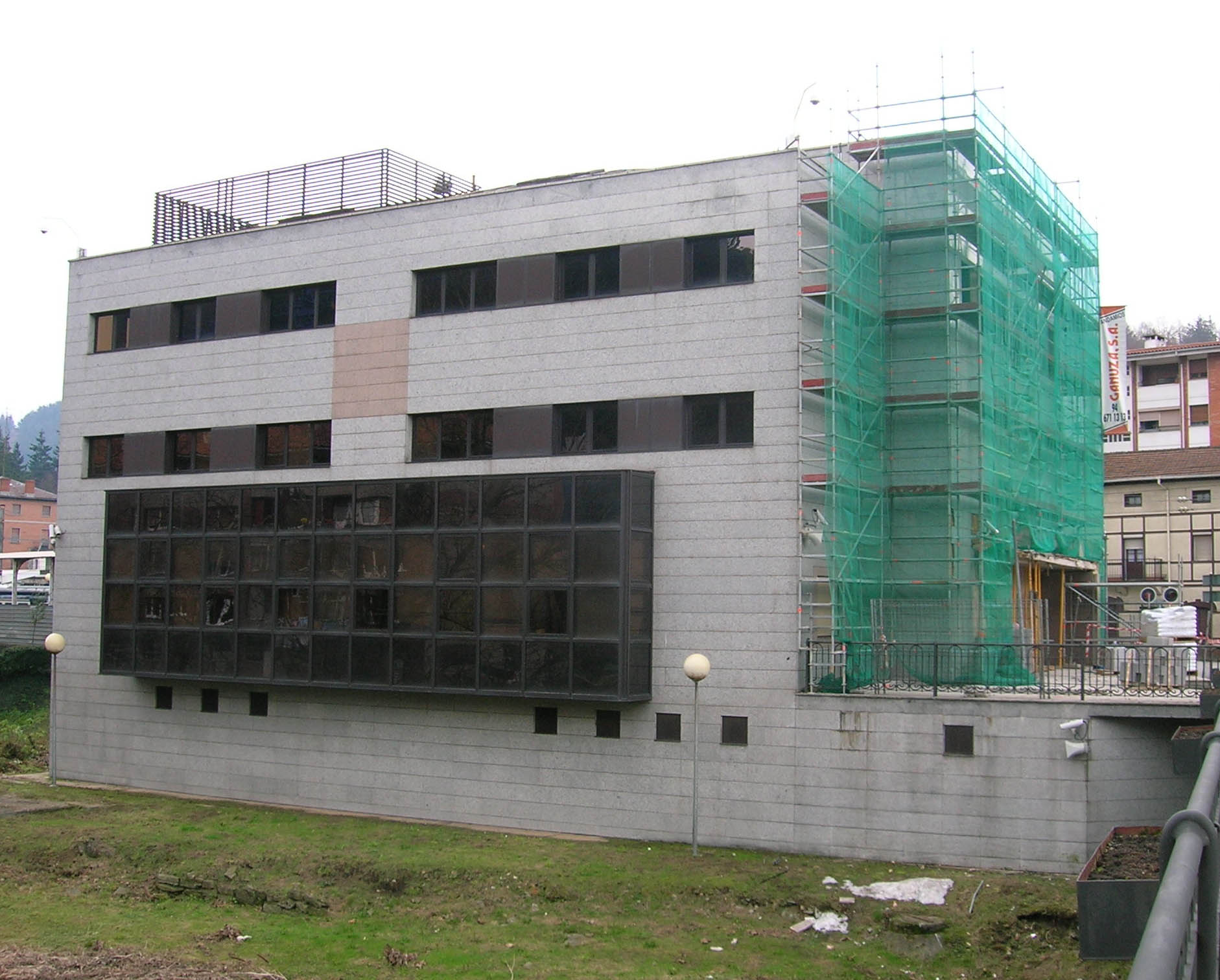 Juzgado de Balmaseda, Vizcaya, en reparaciones después de la explosión de una bolsa con entre diez y quince kilos de explosivo, la noche del 25 al 26 de enero de 2006. La colocación de la bomba había sido anunciada por llamada telefónica en nombre de ETA.